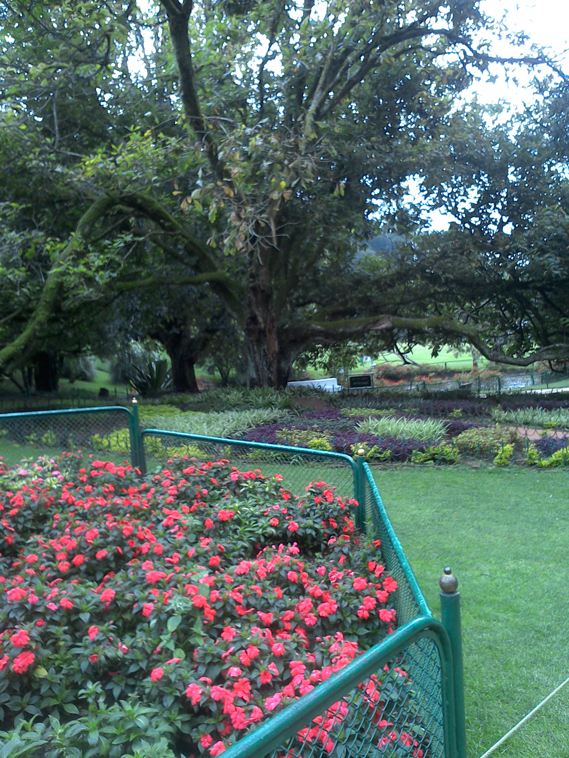 It's a beautiful view from government botanical gardens at Ooty